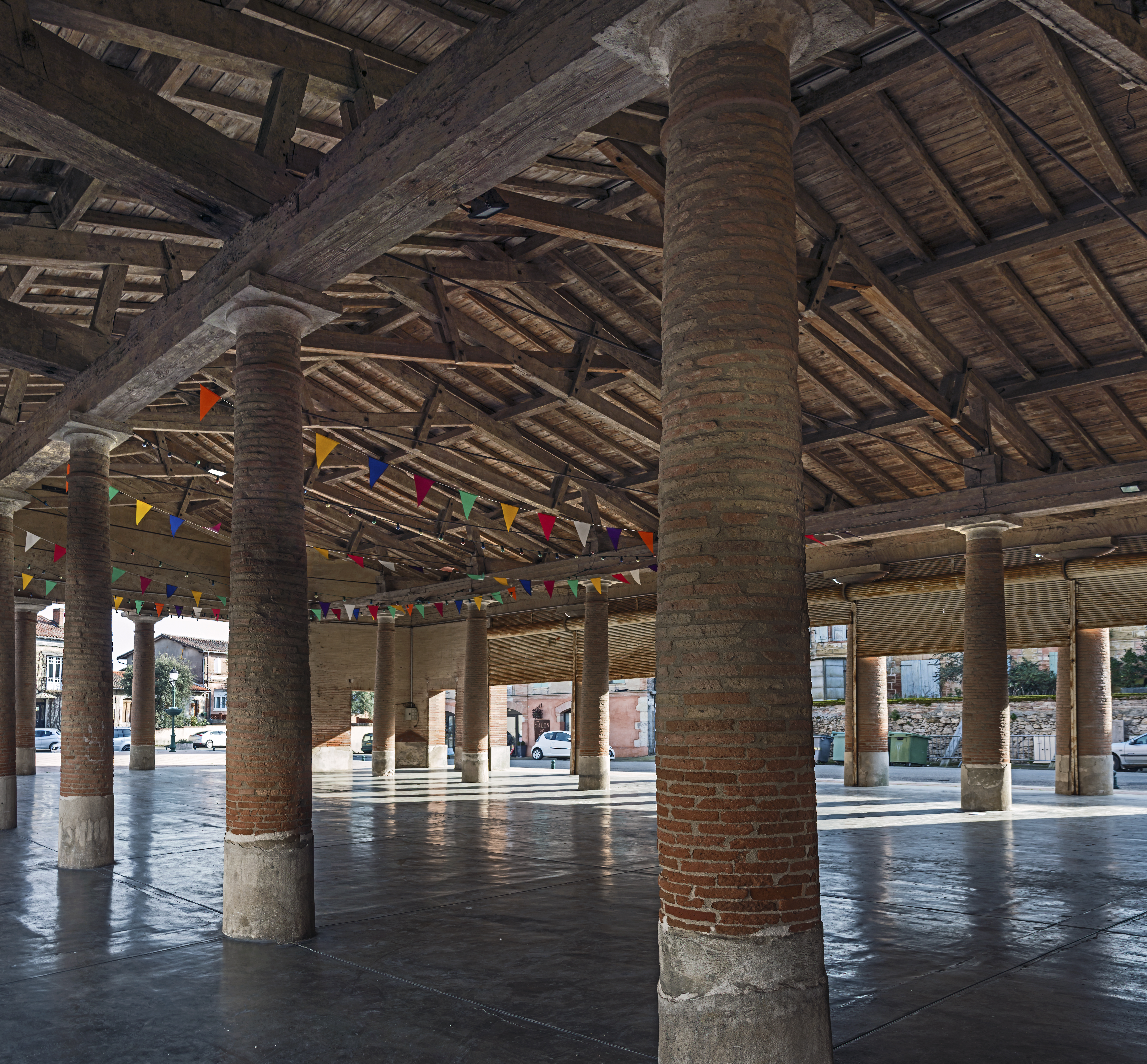 The hall of Cadours, Haute-Garonne, France. Second quarter of the nineteenth century by the architect Antoine Cambon, inside view and framing.